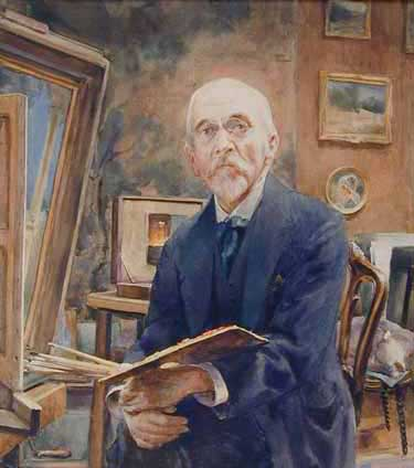 Marcel Rieder in his studio, painted by Anna Zuber, daughter of the painter Henri Zuber (1844-1909).